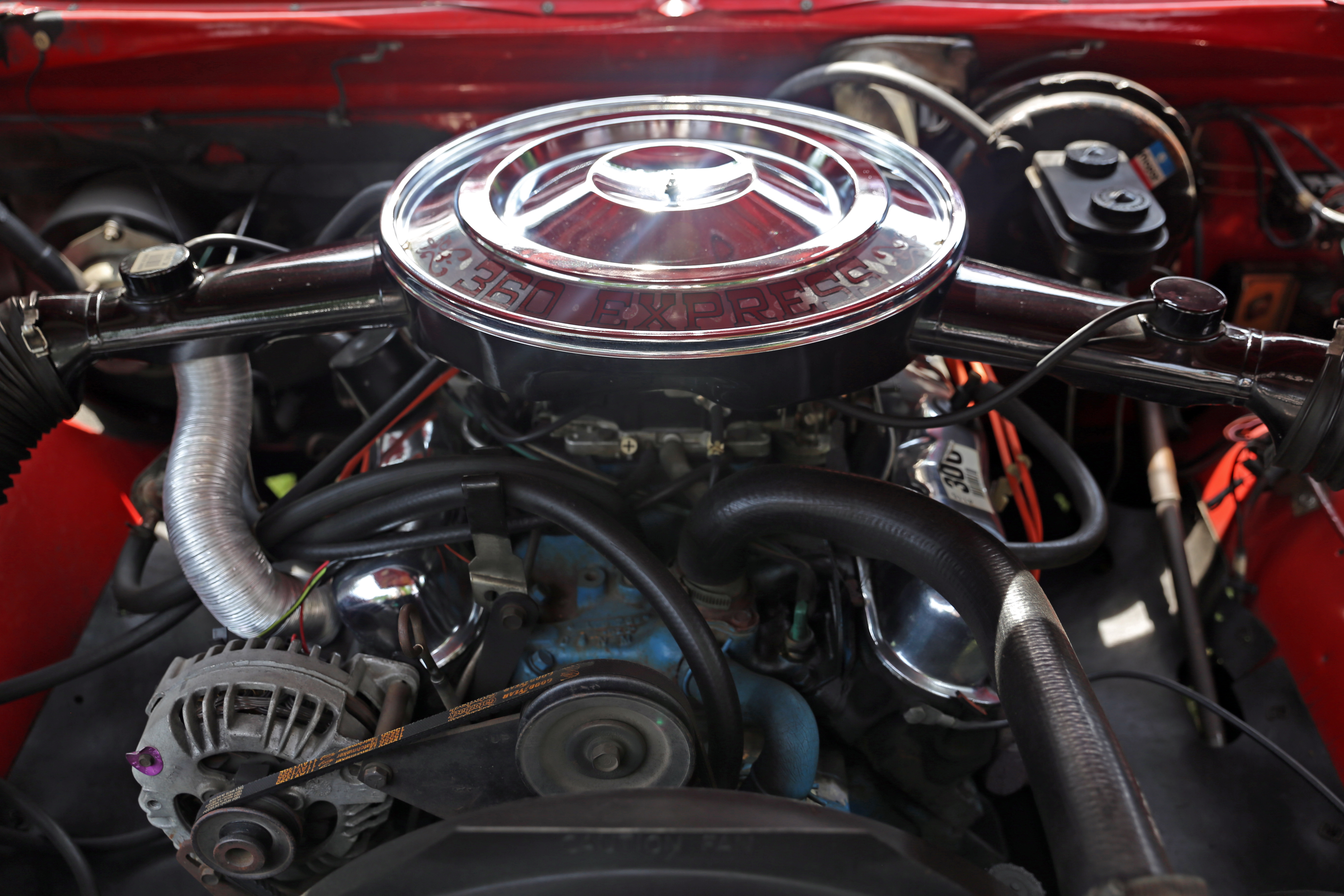 The 360 V8 engine (code EH1, 255hp) in a 1978-1979 Dodge D150 Adventurer "Li'l Red Express Truck". This high compression version made Li'l Red America's fastest production vehicle in the 0-60 mph sprint for the two years it was built.